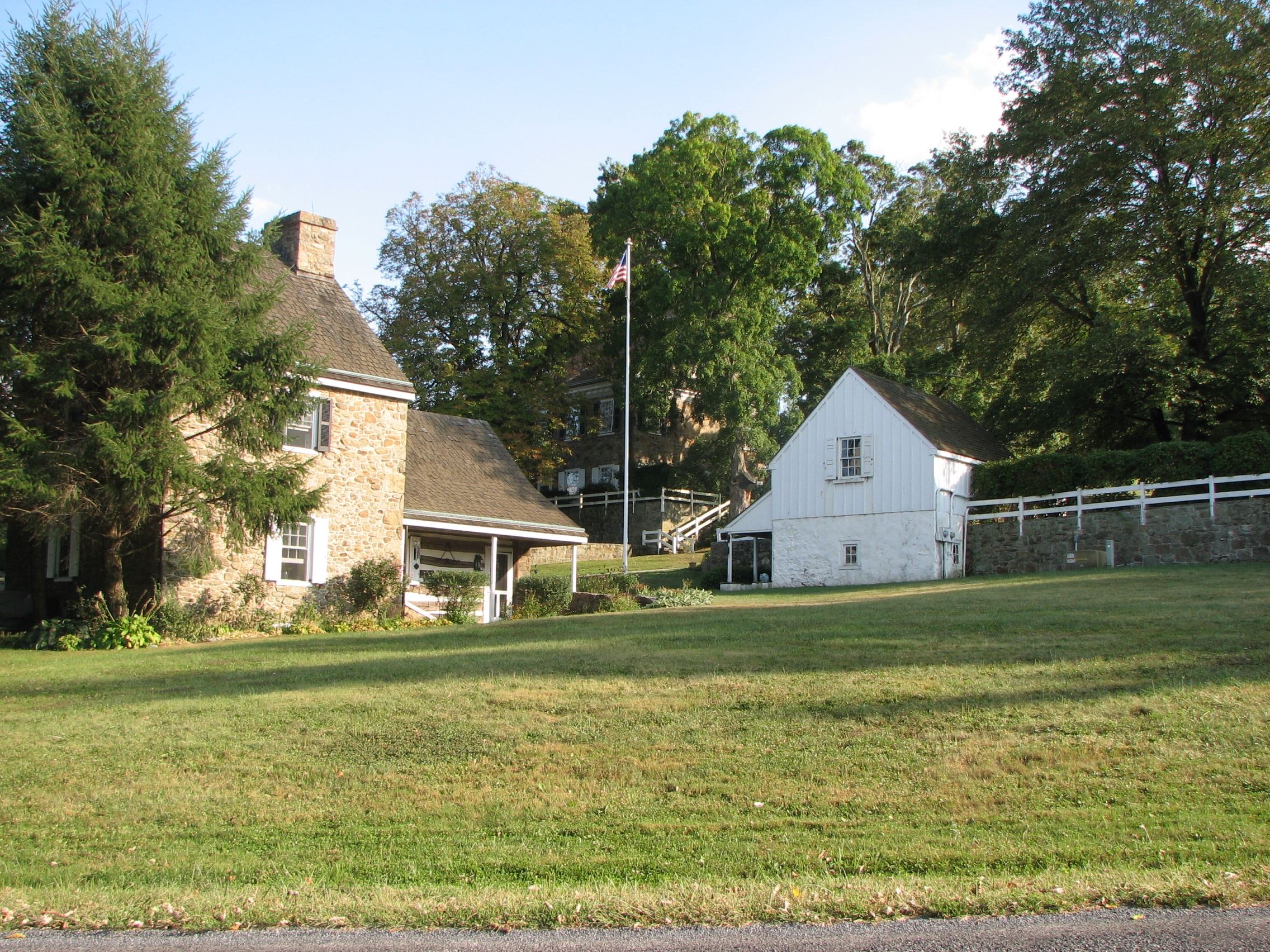 Buildings in the Reading Furnace Historic District, near Warwick, Pennsylvania. The mansion can be seen in the middle background.